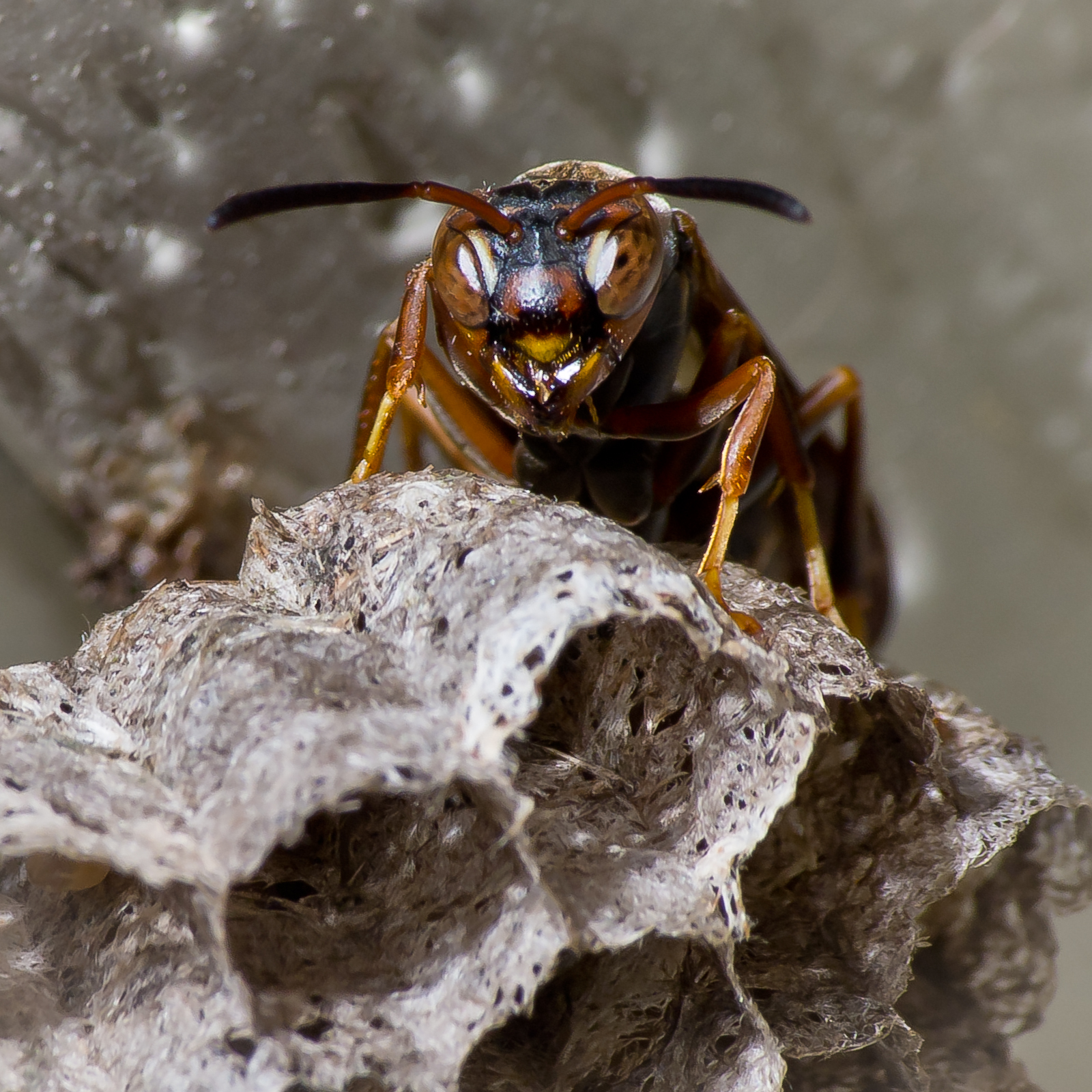 A female Brown Paper Wasp (Polistes fuscatus) guarding her nest.Photo taken with an Olympus E-5 in Caldwell County, NC, USA.Cropping and post-processing performed with Adobe Lightroom.